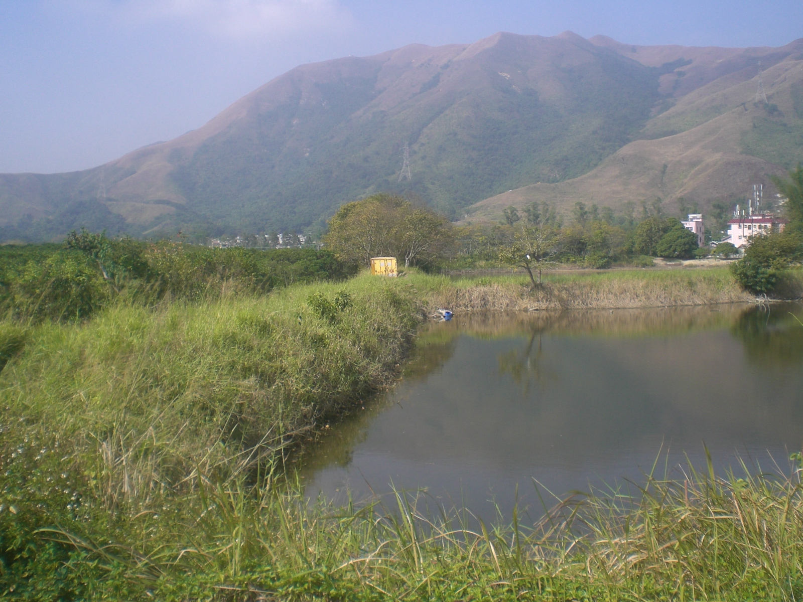 香港北區zh:鹿頸路